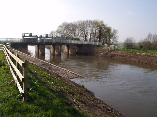 New Bridge This image was taken from the Geograph project collection. See this photograph's page on the Geograph website for the photographer's contact details. The copyright on this image is owned by Derek Harper and is licensed for reuse under the Creative Commons Attribution-ShareAlike 2.0 license. Attribution: Derek Harper